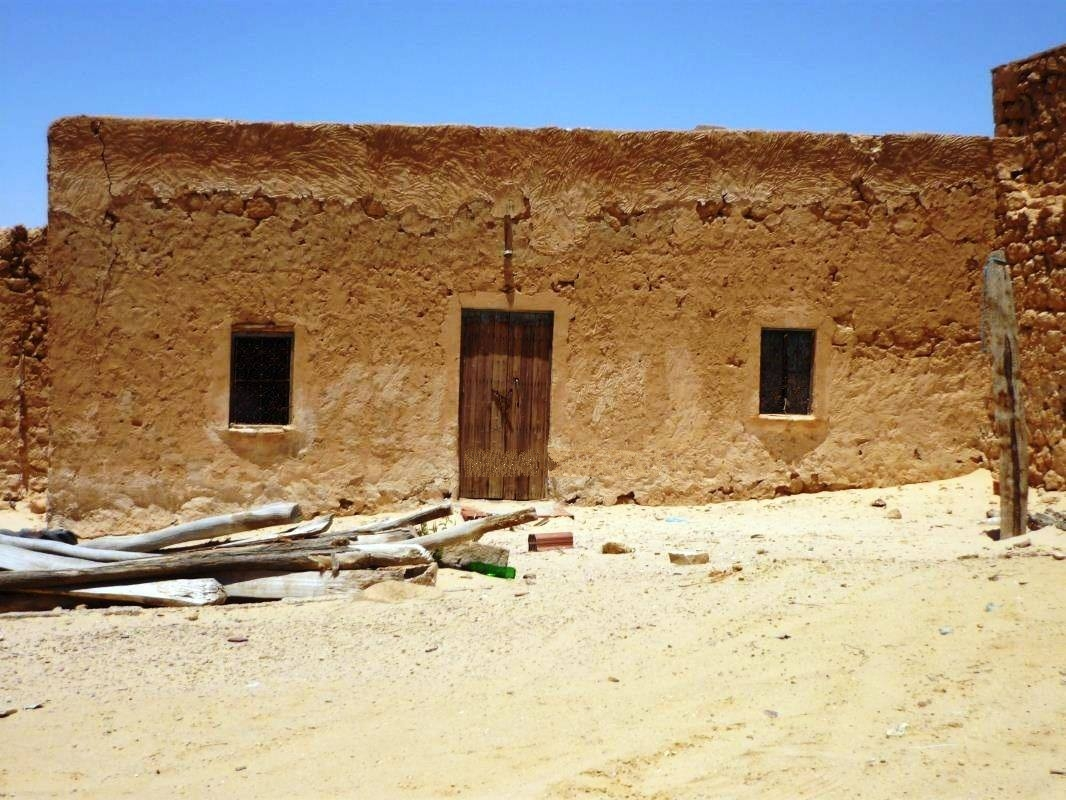 Part of the "houch" which contains many "Dar"